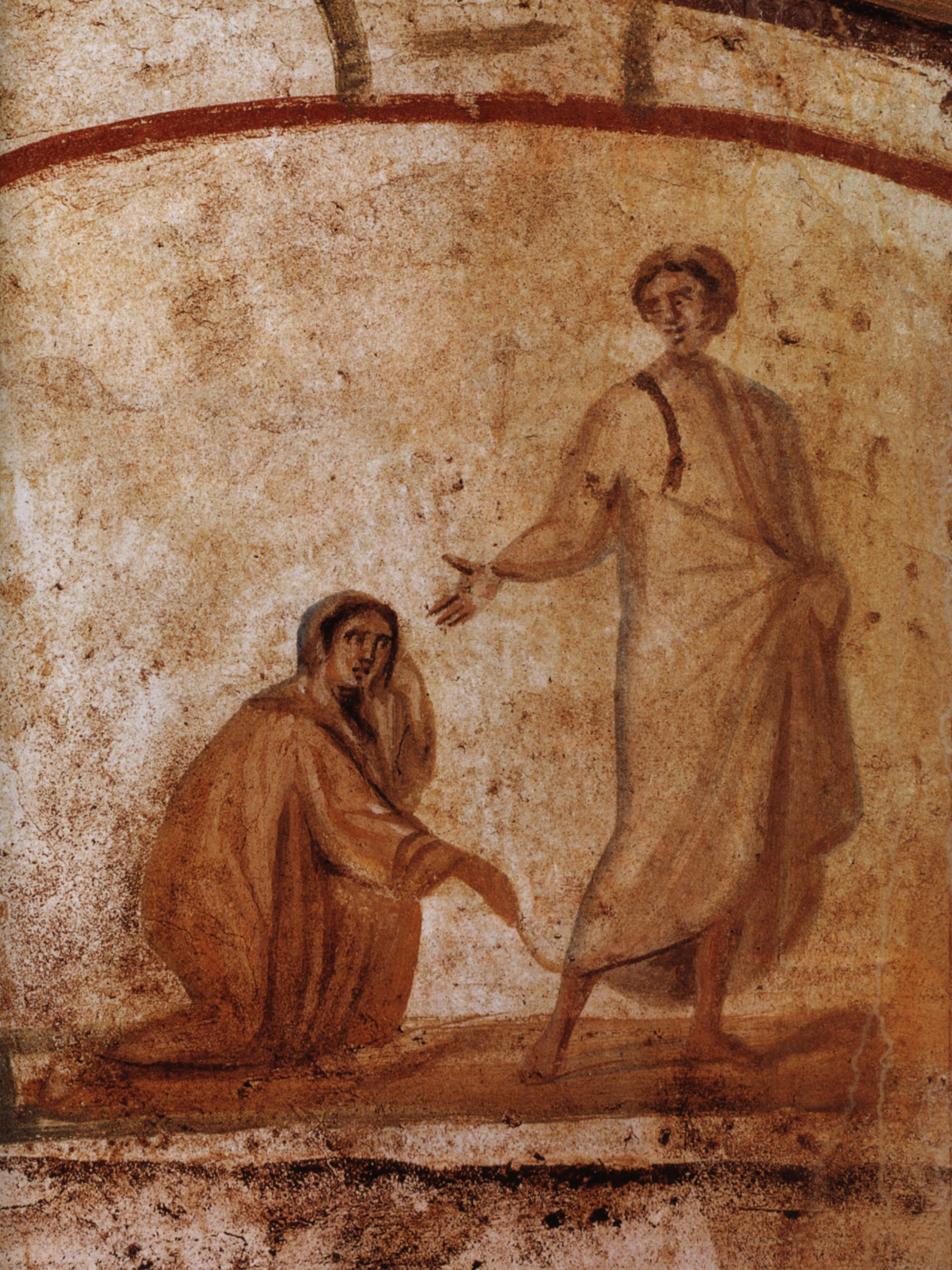 The healing of a bleeding woman, Rome, Catacombs of Marcellinus and Peter.